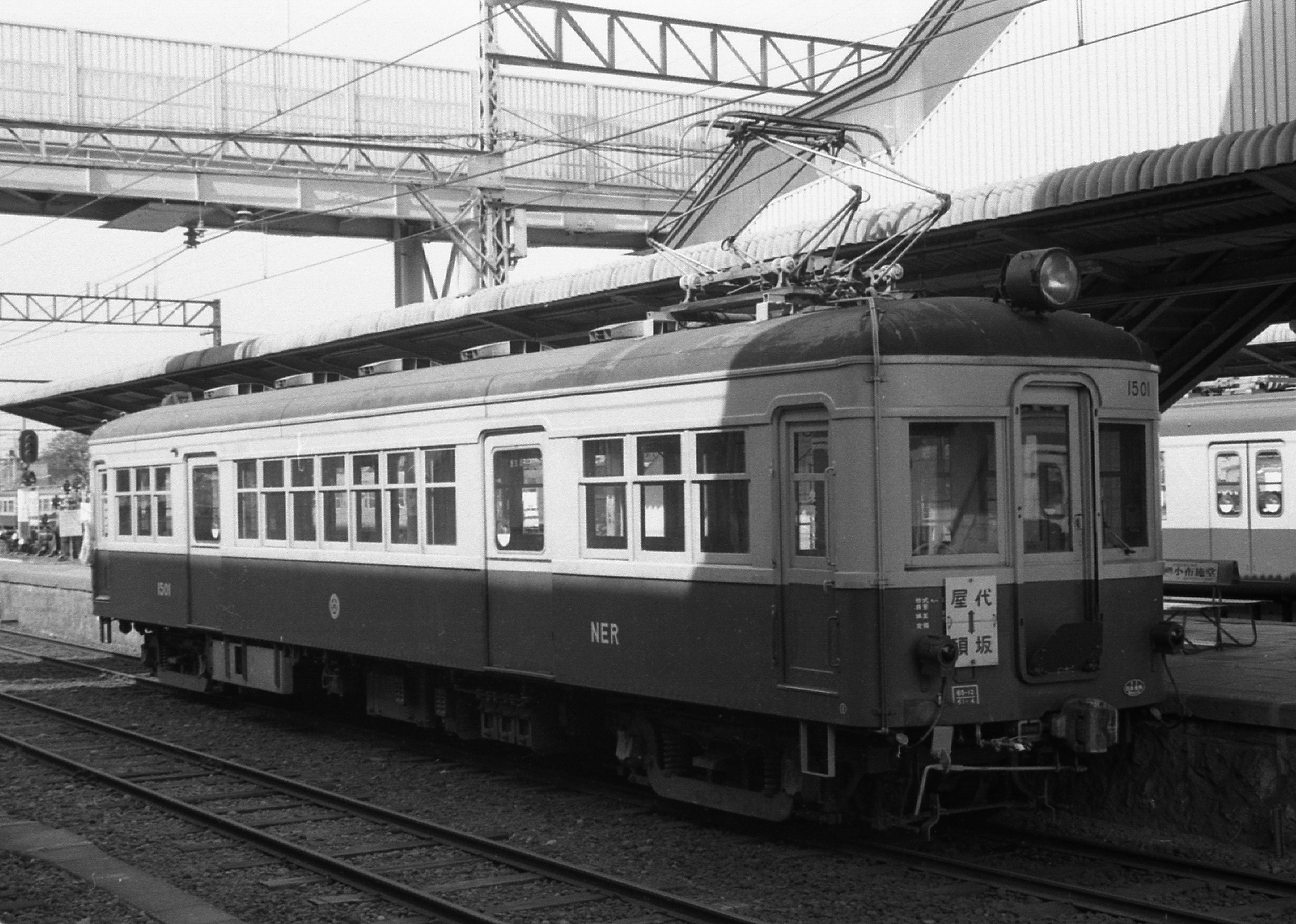 Nagaden Deha 1501 at Suzaka station